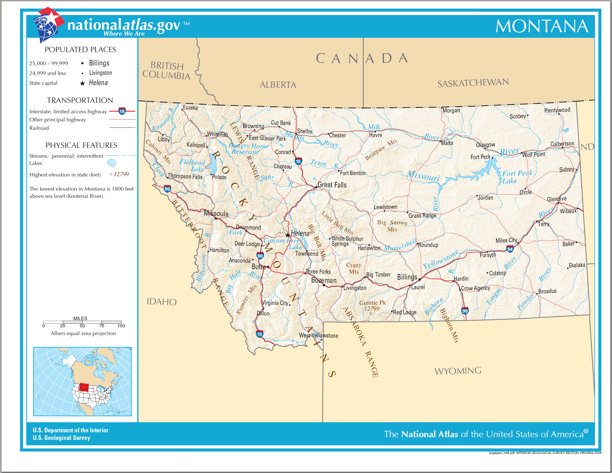 Map of Montana